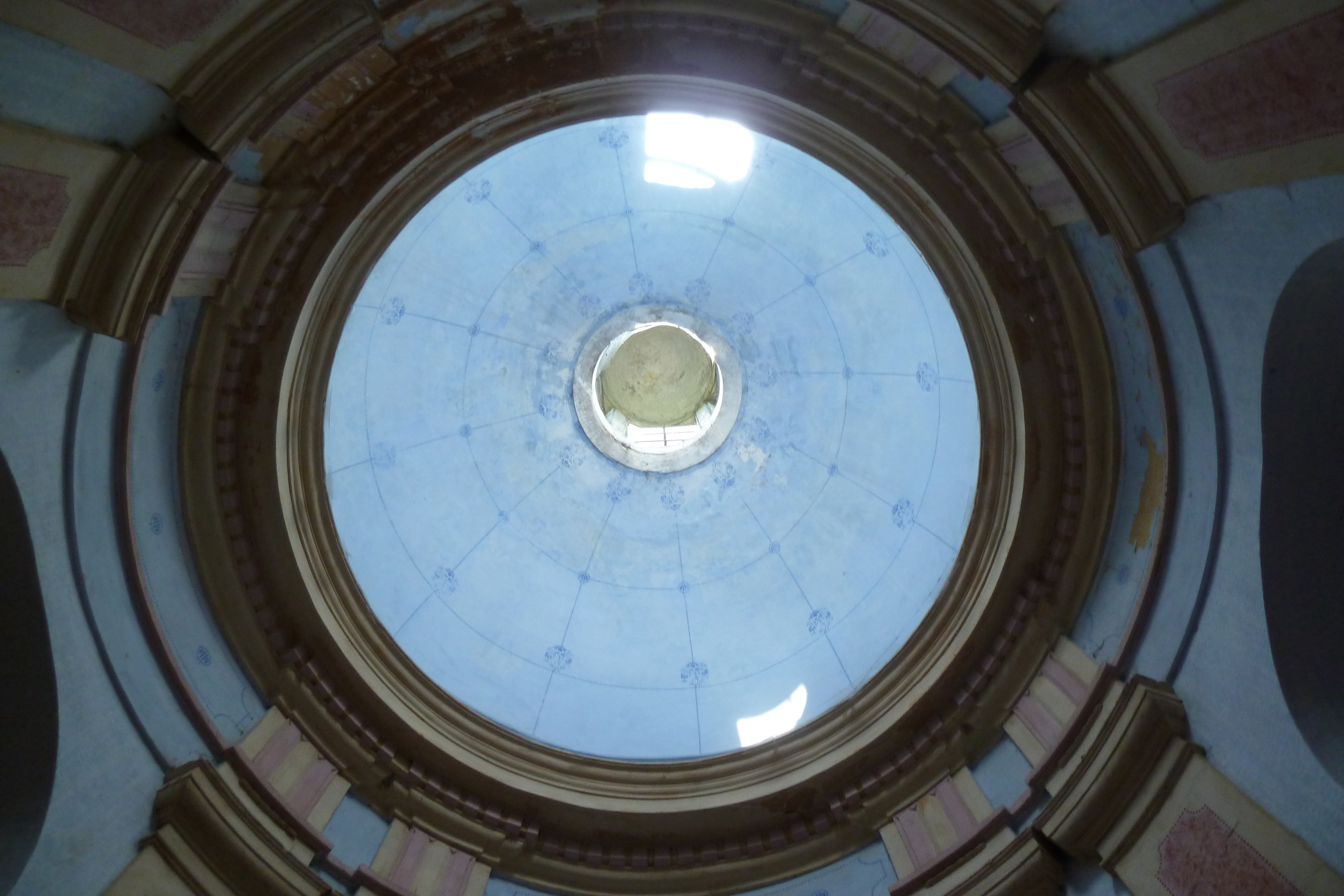 Chapel of Svata Anna (St.Anna) near Dolni Lochov (Czech Republic) - the dome